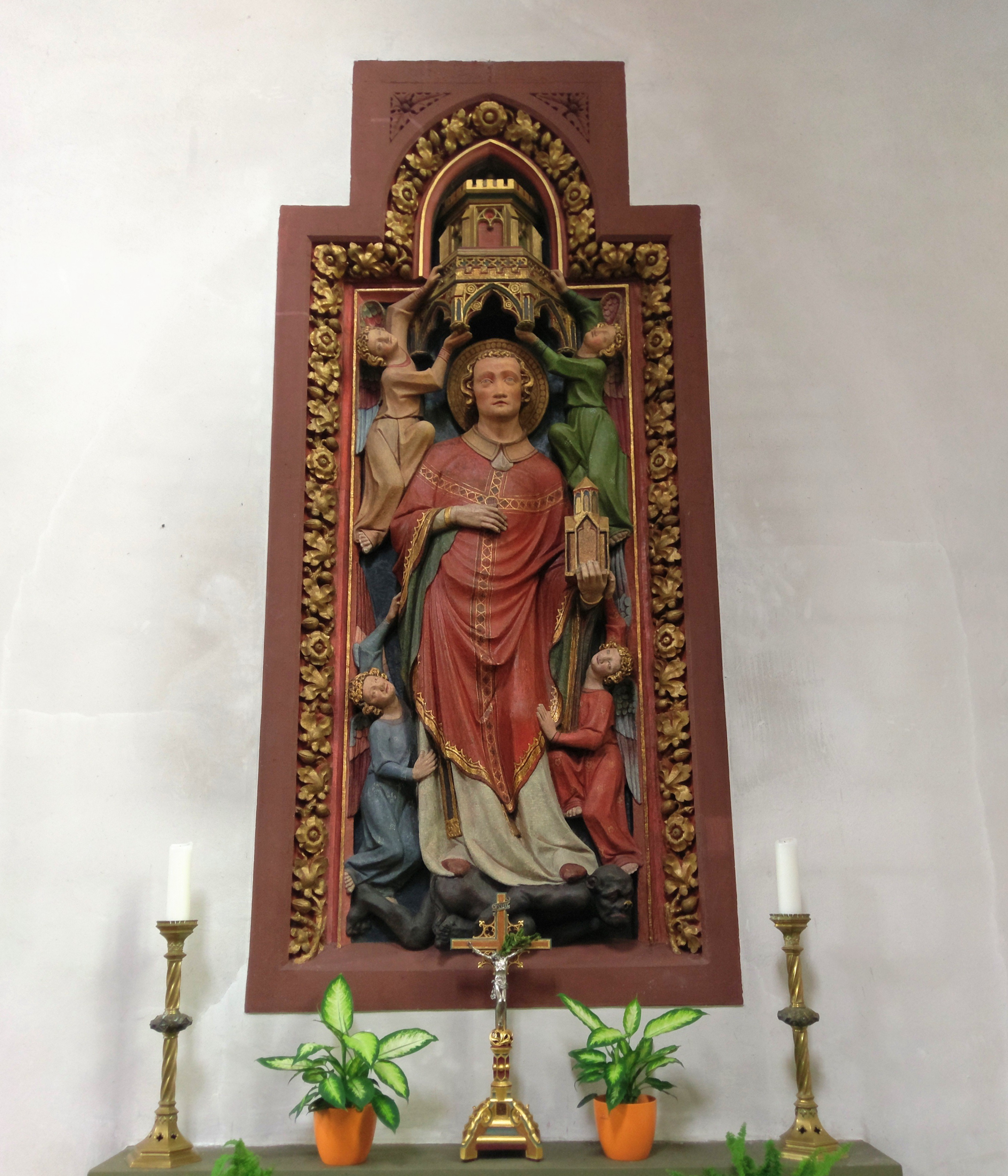 Tombstone of the former table tomb of St. Goar from the second quarter of the 14th century. Catholic church, Sankt Goar.